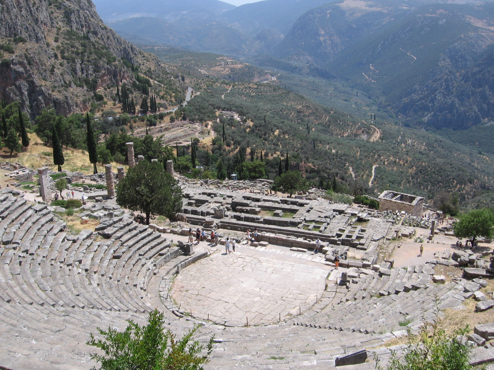 Delphi's Theatre